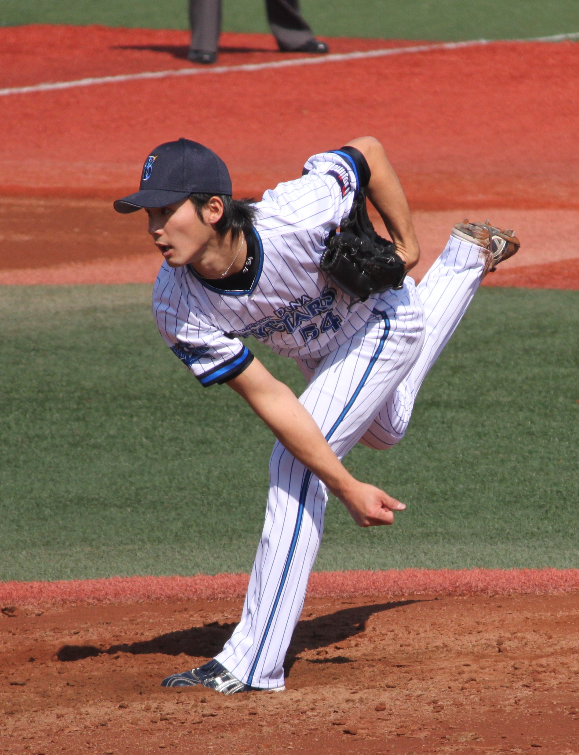 Yota Kosugi, pitcher of the Yokohama DeNA BayStars, at Yokosuka Stadium.